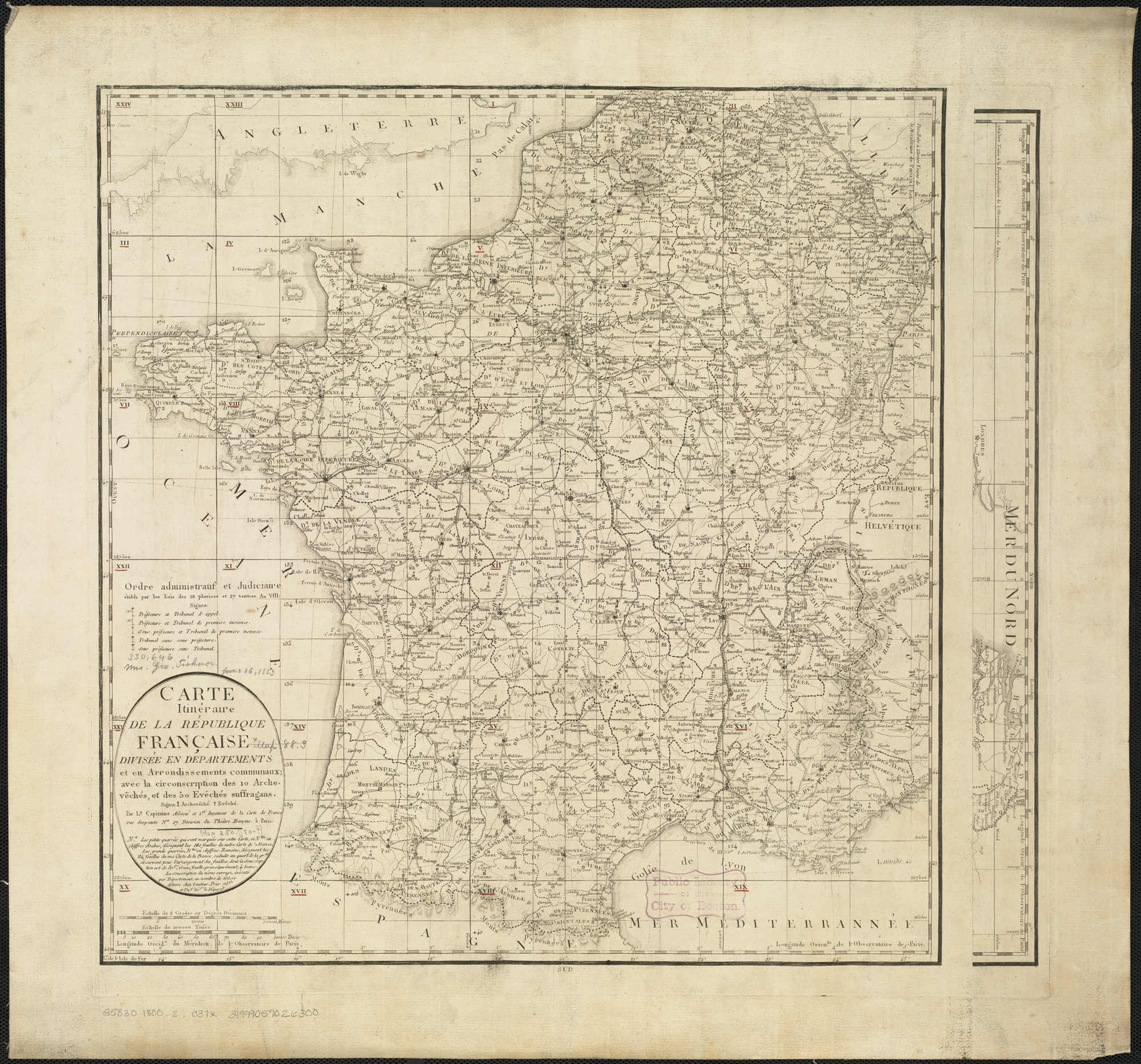 Zoom into this map at . Author: Capitaine, Louis Date: 1800 Location: France Dimension 49x51cm Scale: ca. 2,100,000 Call Number: G5830 1800.2 .C37x